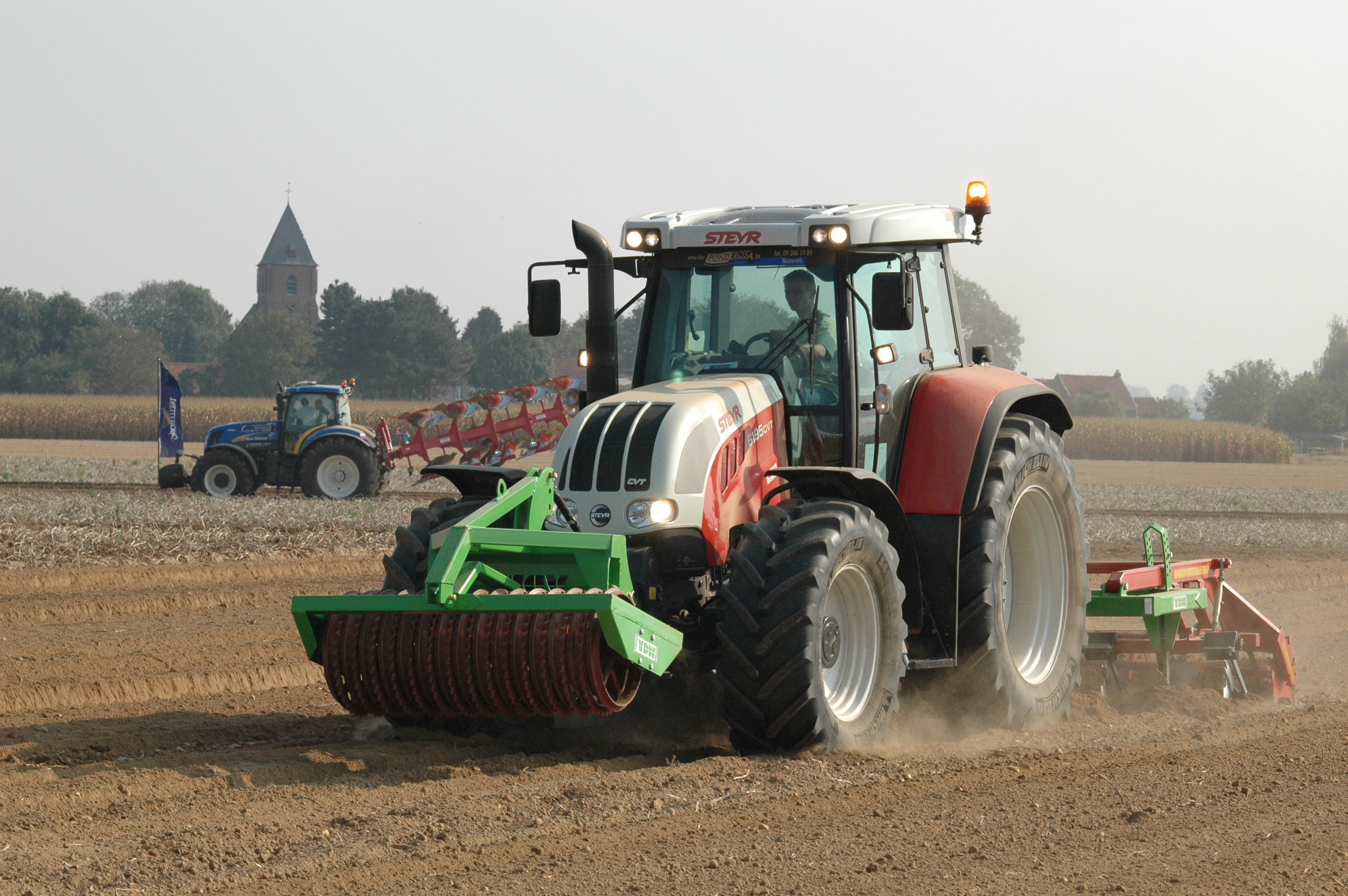 Steyr 6195 CVT tractor with a VDW front roller/ring packer and a VDW disc harrow combination, Werktuigendagen 2009